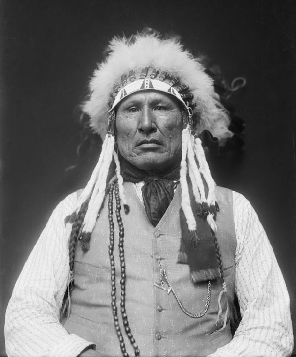 This image appeared on the cover of the 2003 edition of Wooden Leg: A Warrior Who Fought Custer. It is credited there to National Anthropological Archives, Smithsonian Institution.